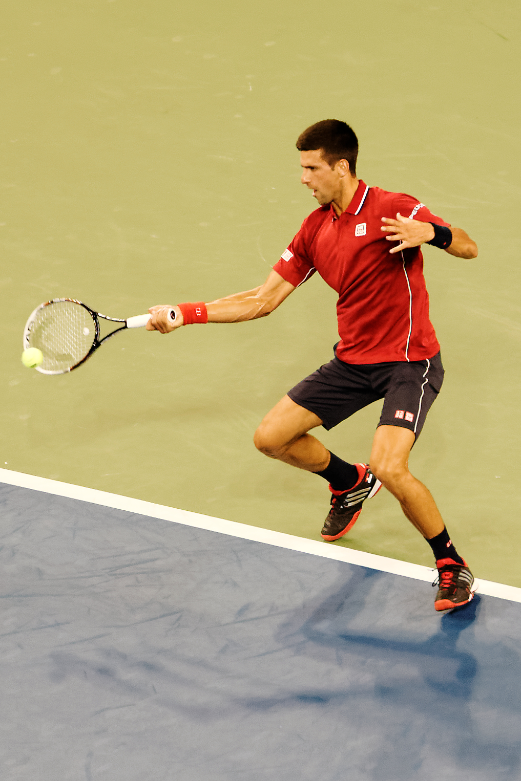 The 2014 US Open is a tennis tournament played on the outdoor hard courts. It is the 134th edition of the US Open, the fourth and final Grand Slam event of the year. It is currently taking place at the USTA Billie Jean King National Tennis Center. Roger Federer Ana Ivanovic Bill Diblasio David Dinkins Martina Navratilova